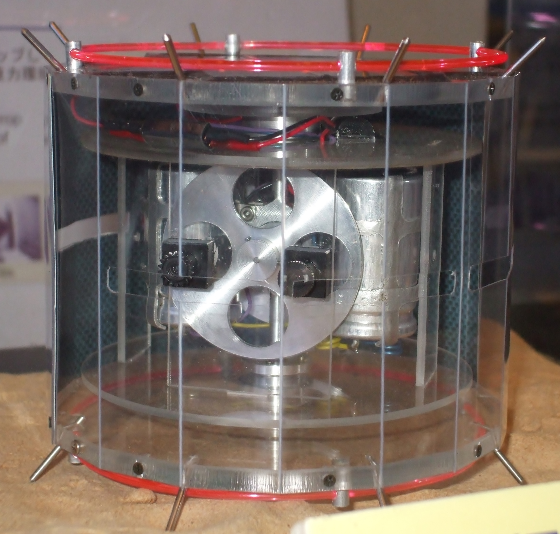 Inner structure of MINERVA model, taken at Institute of Space and Astronautical Science in Chūō-ku, Sagamihara